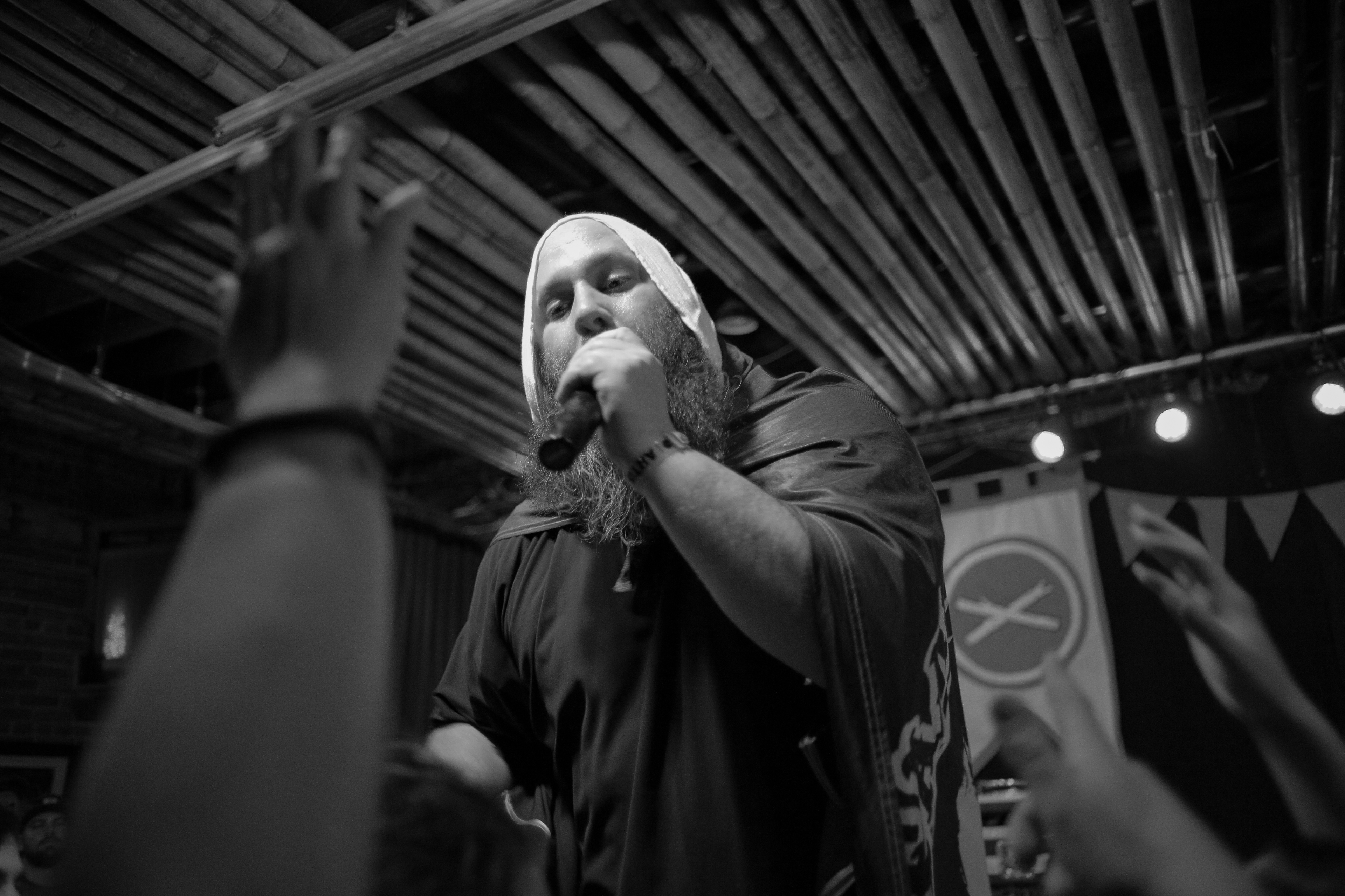 Sage Francis performs at The Reef in downtown Boise, Idaho on the second day of the second annual Treefort Music Fest.